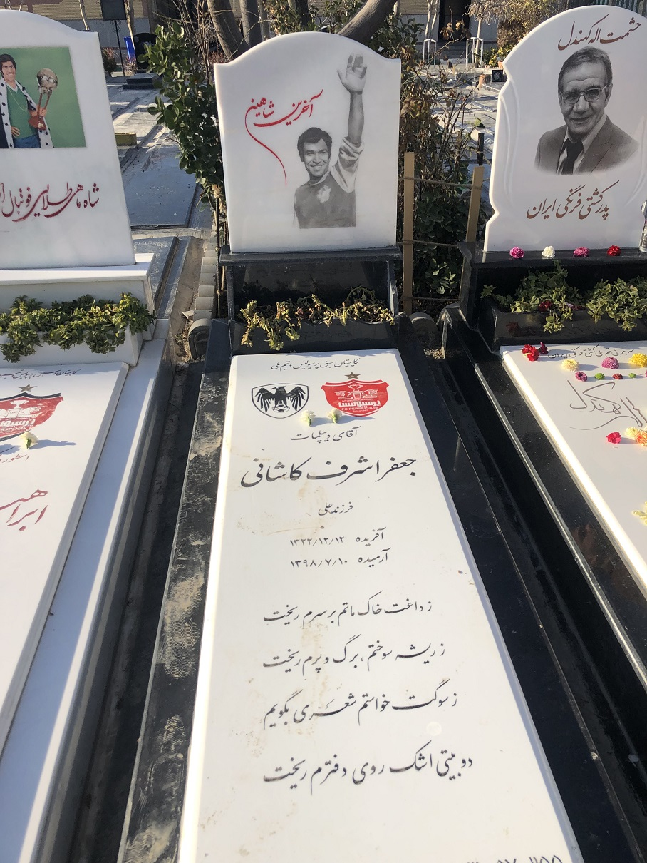 Beheshte Zahra Cemetery